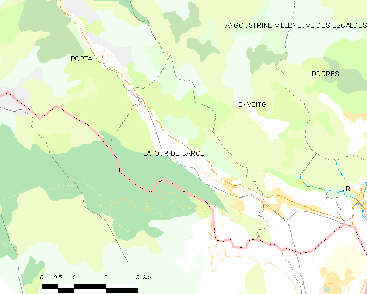 Map of French municipality